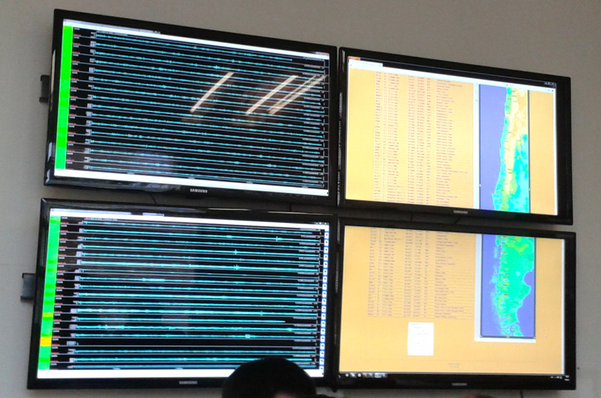 Monitoreo a tiempo real de las estaciones del Servicio Sismológico de Chile.